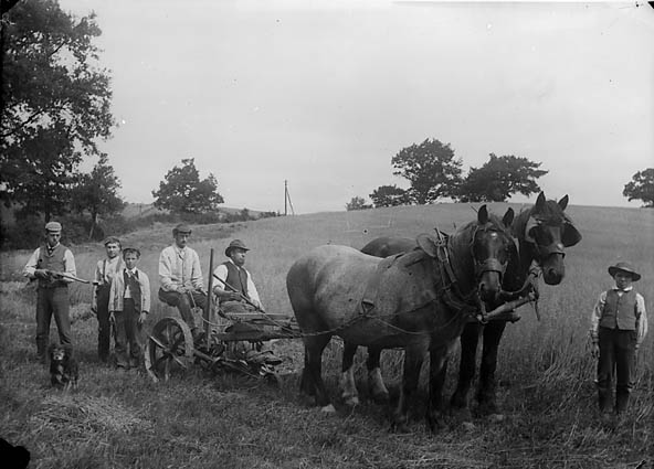 1 negative : glass, dry plate, b&w ; 12 x 16.5 cm.